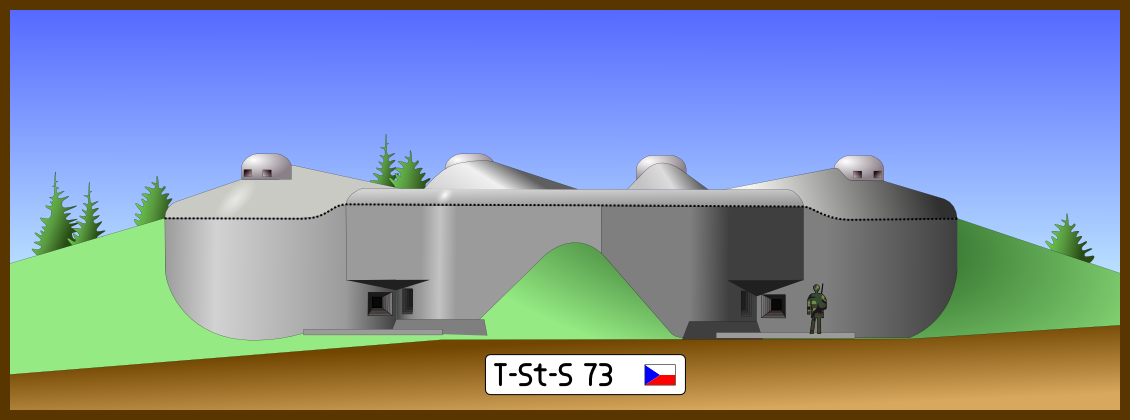 CS - Stachelberg, T-St-S 73